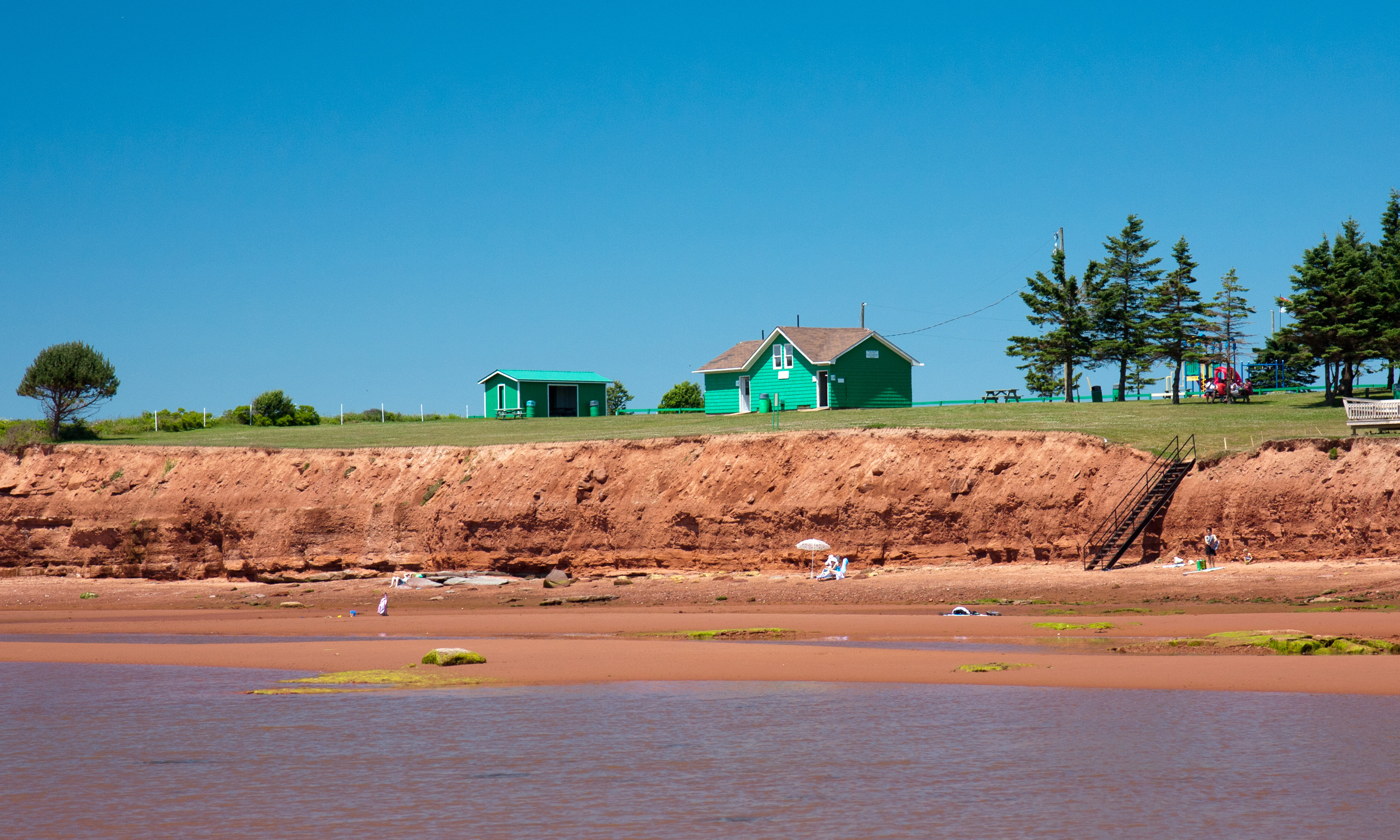 Argyle Shore Provincial Park